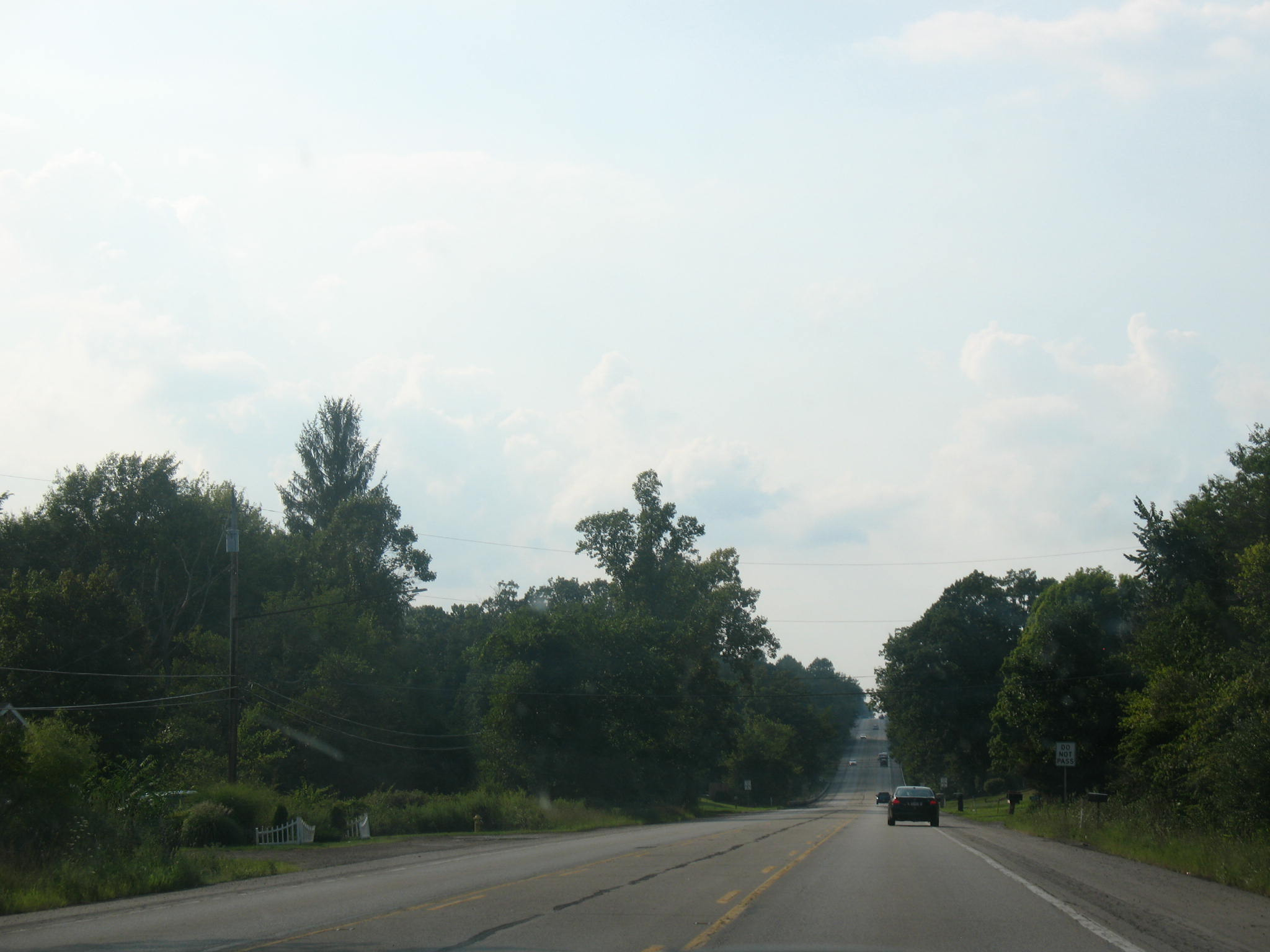 US 422 west of New Castle, PA